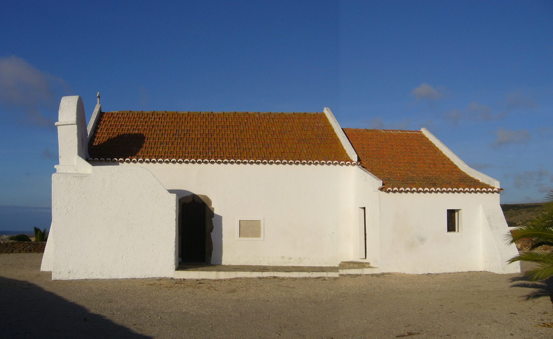 The church in Carrapateira, Bordeira, Aljezur. The municipal website says it is dedicated to Nossa Senhora da Conceição (Our Lady of Conception) but the diocesan website gives no patron.